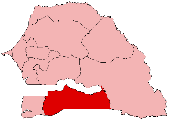 Map of Kolda region, Senegal.